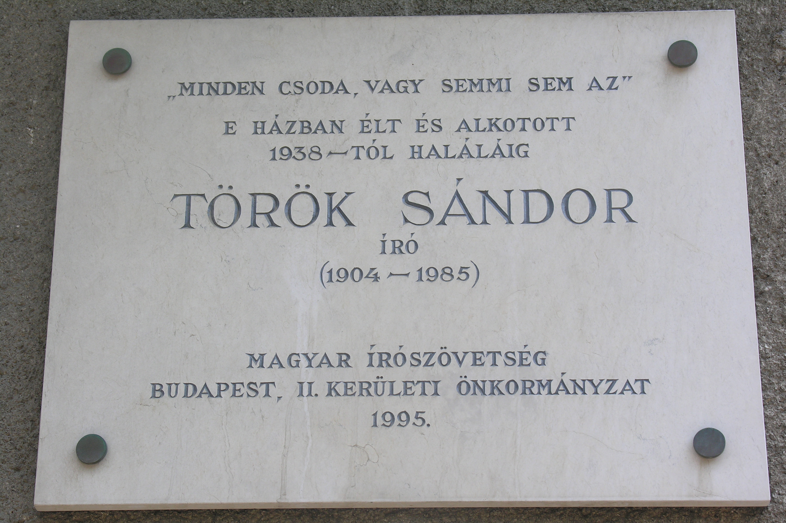 Commemorative plaque of the writer Sándor Török in Budapest District II, Bimbó Street No 5